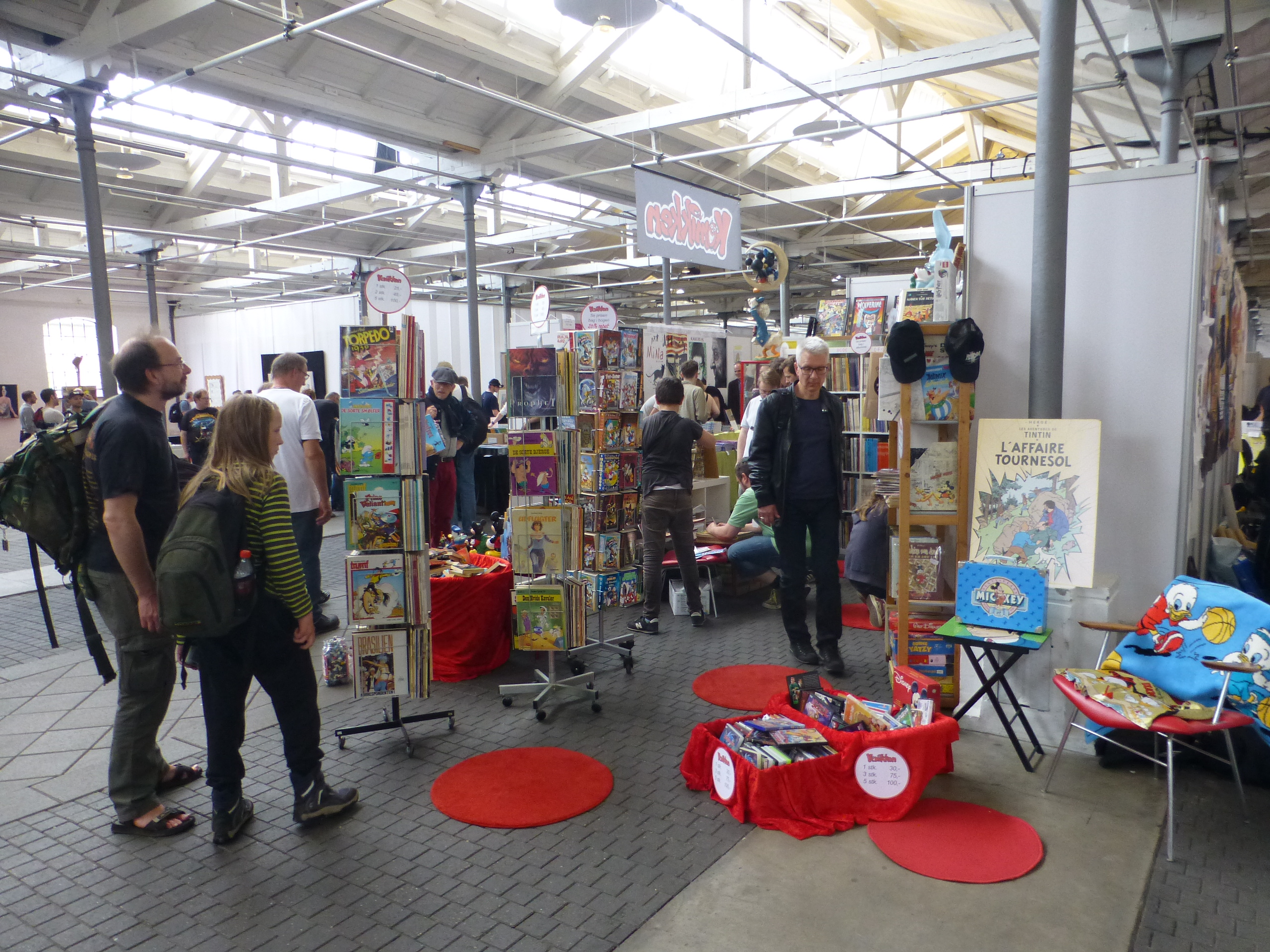 Copenhagen Comics, a Danish festival of comics in Øksnehallen in Copenhagen. The comic book store Komikken.